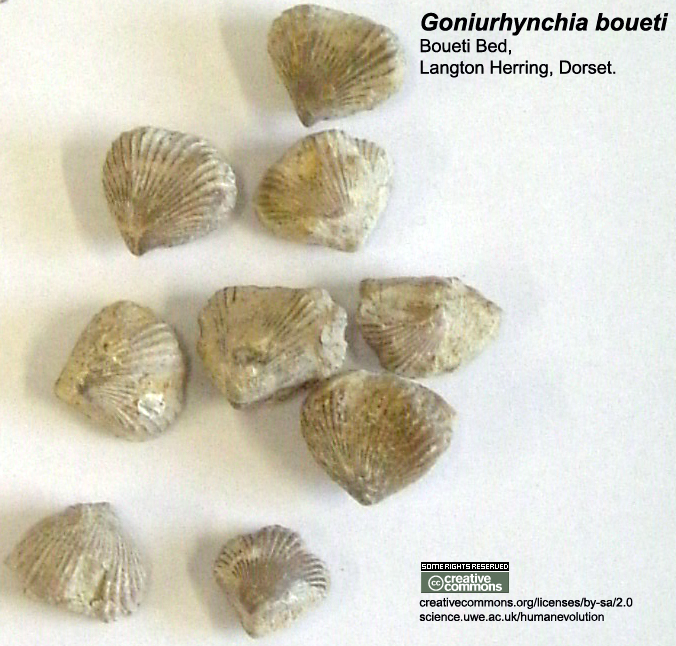 Fossil Goniorhynchia boueti from the Jurassic Coast of England. These fossils were collected by Dr Richard Osborne on the Jurassic Coast in Dorset, England.